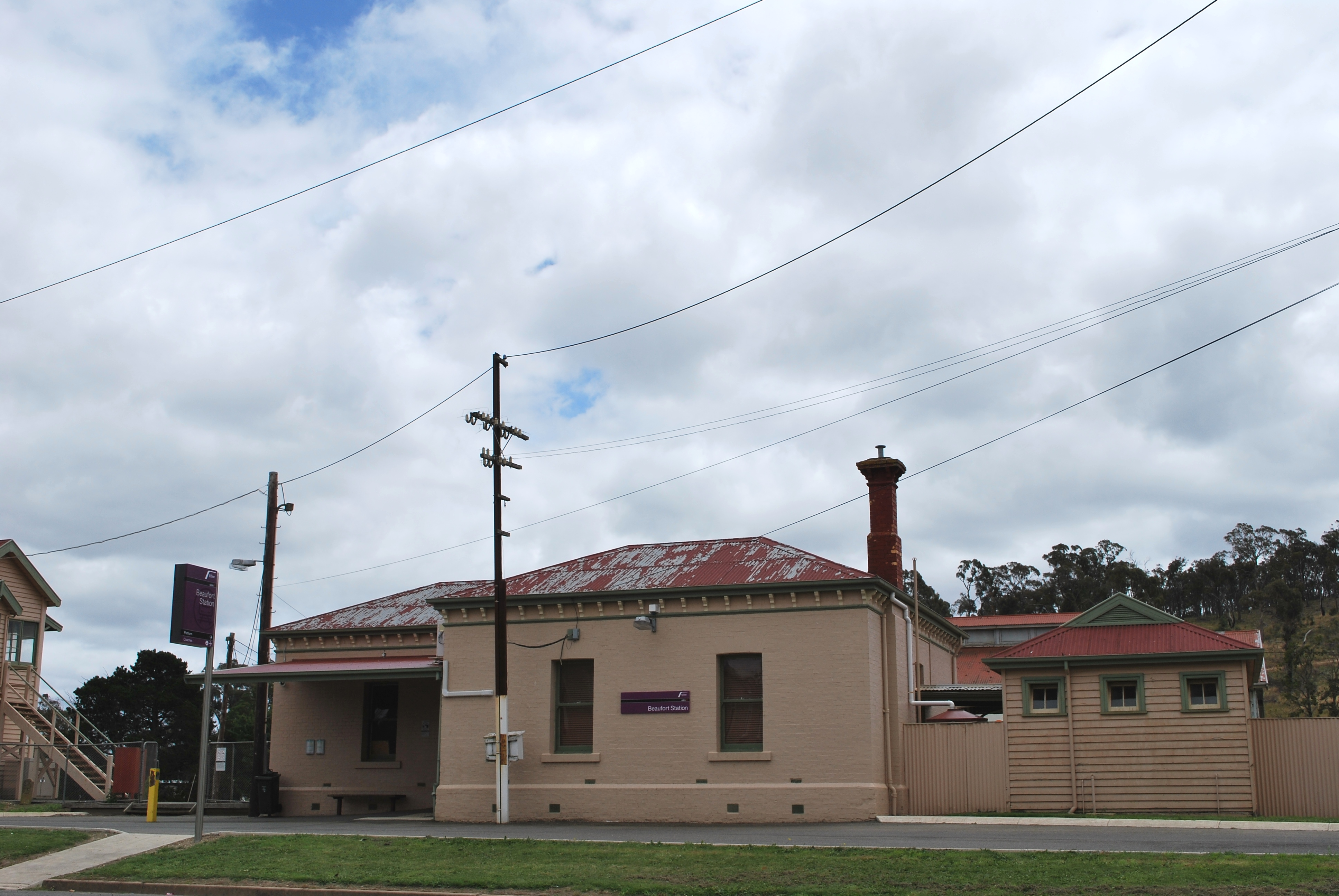 Train station at Beaufort, Victoria